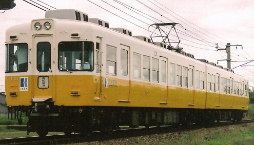 Takamatsu-Kotohira Electric Railroad No 1101 running between Sue and Takinomiya